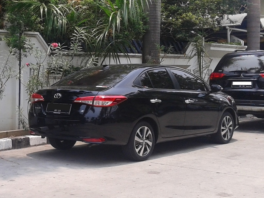 2018 Toyota Vios 1.5 G (NSP151) shown in Attitude Black Mica, photographed in West Jakarta, Indonesia.